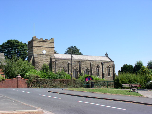 St Mary's church, Northop Hall St Mary’s Church was opened in 1912.